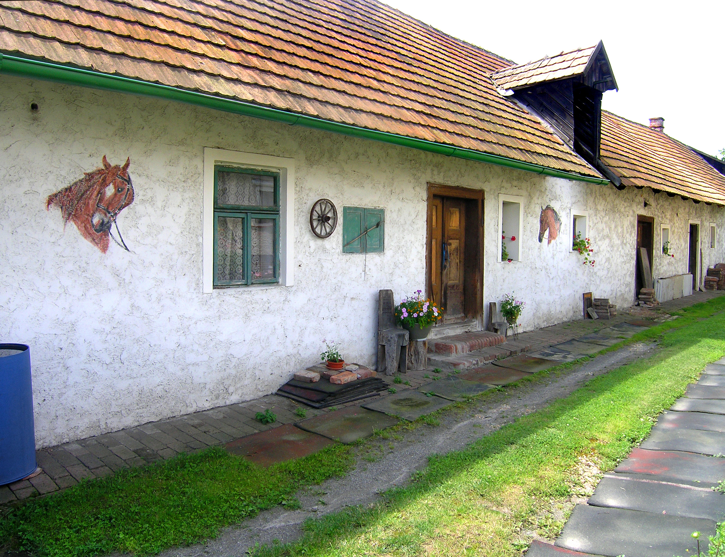 South common in Radovesnice II, Czech Republic